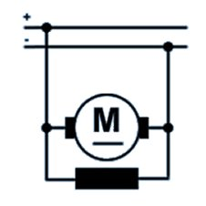 Motor eléctrico con excitacion en paralelo